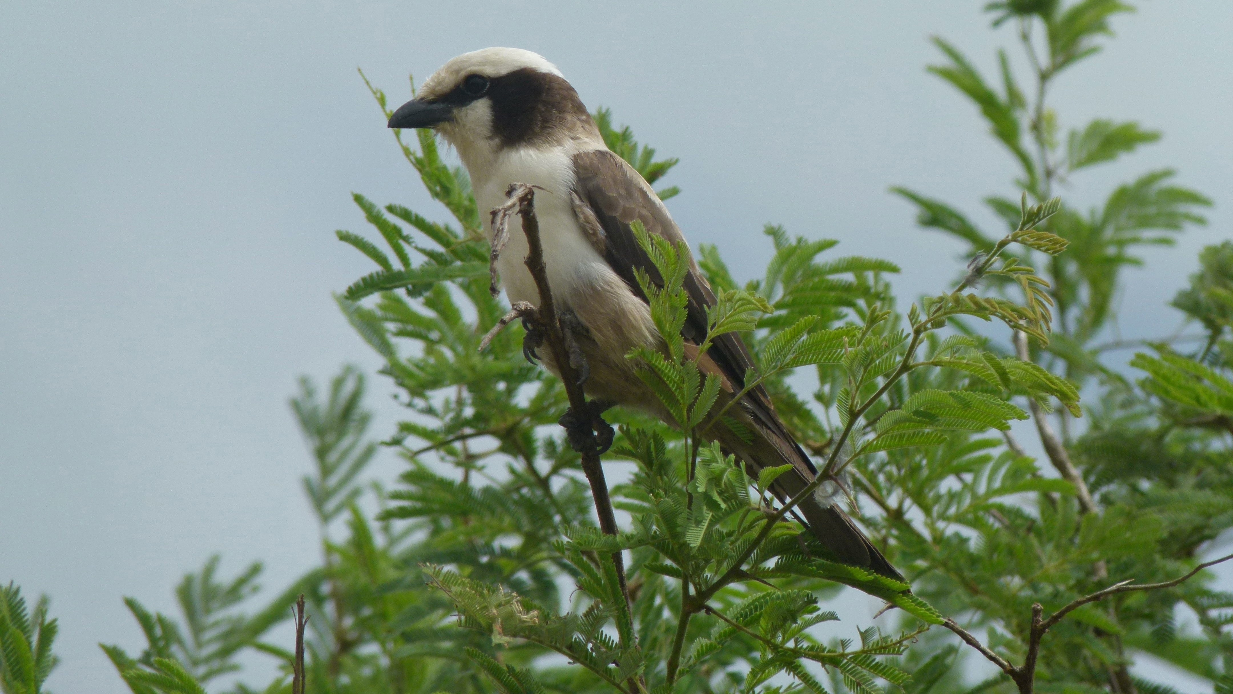 S114 South of Skukuza, Kruger NP, SOUTH AFRICA